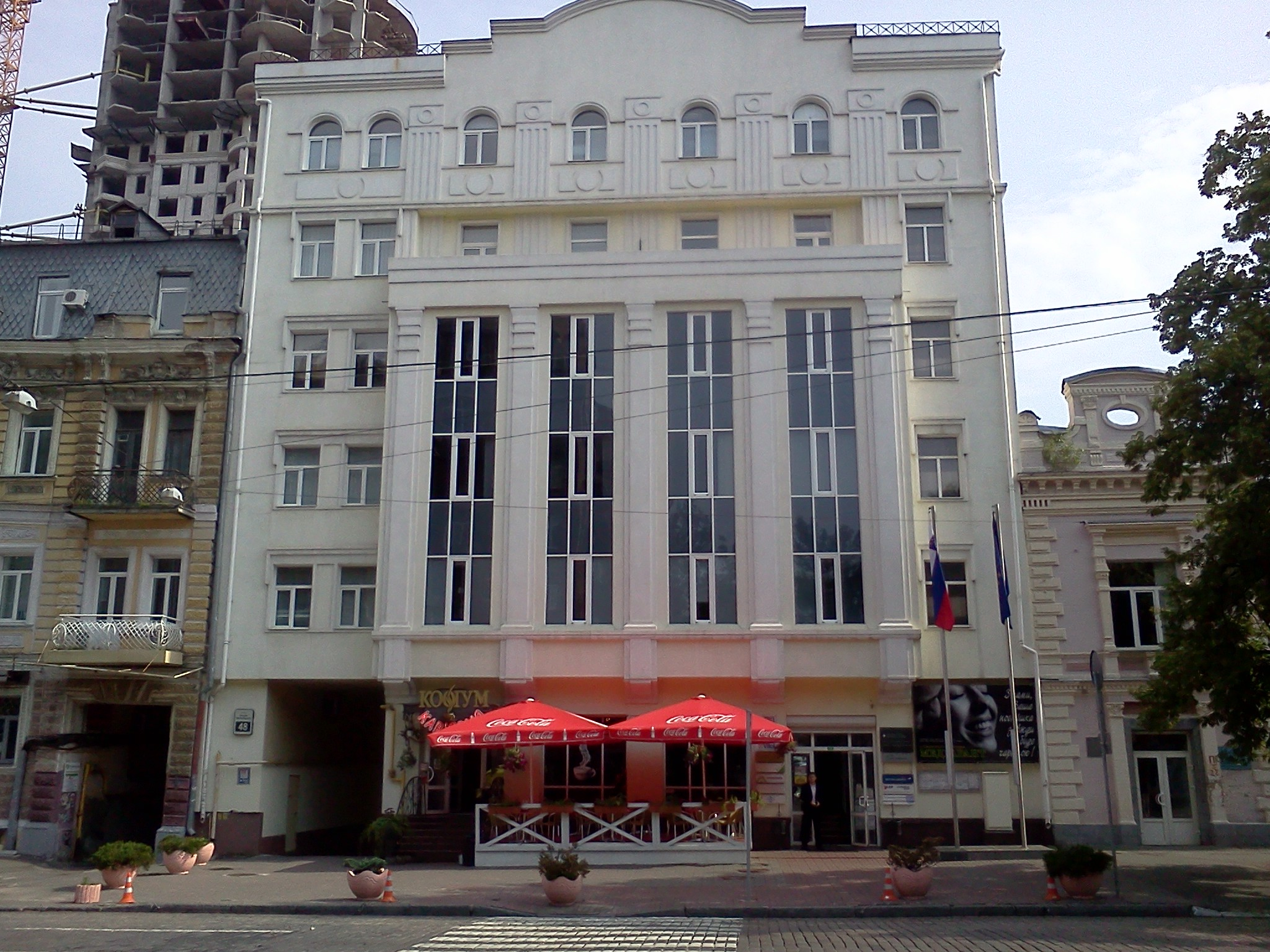 Embassy of Slovenia in Kyiv